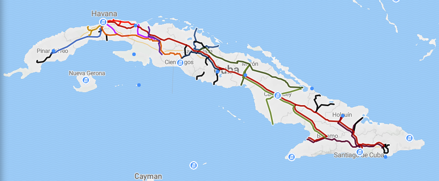 Passenger trains in Cuba This map may be incomplete, and may contain errors. Don't rely solely on it for navigation.